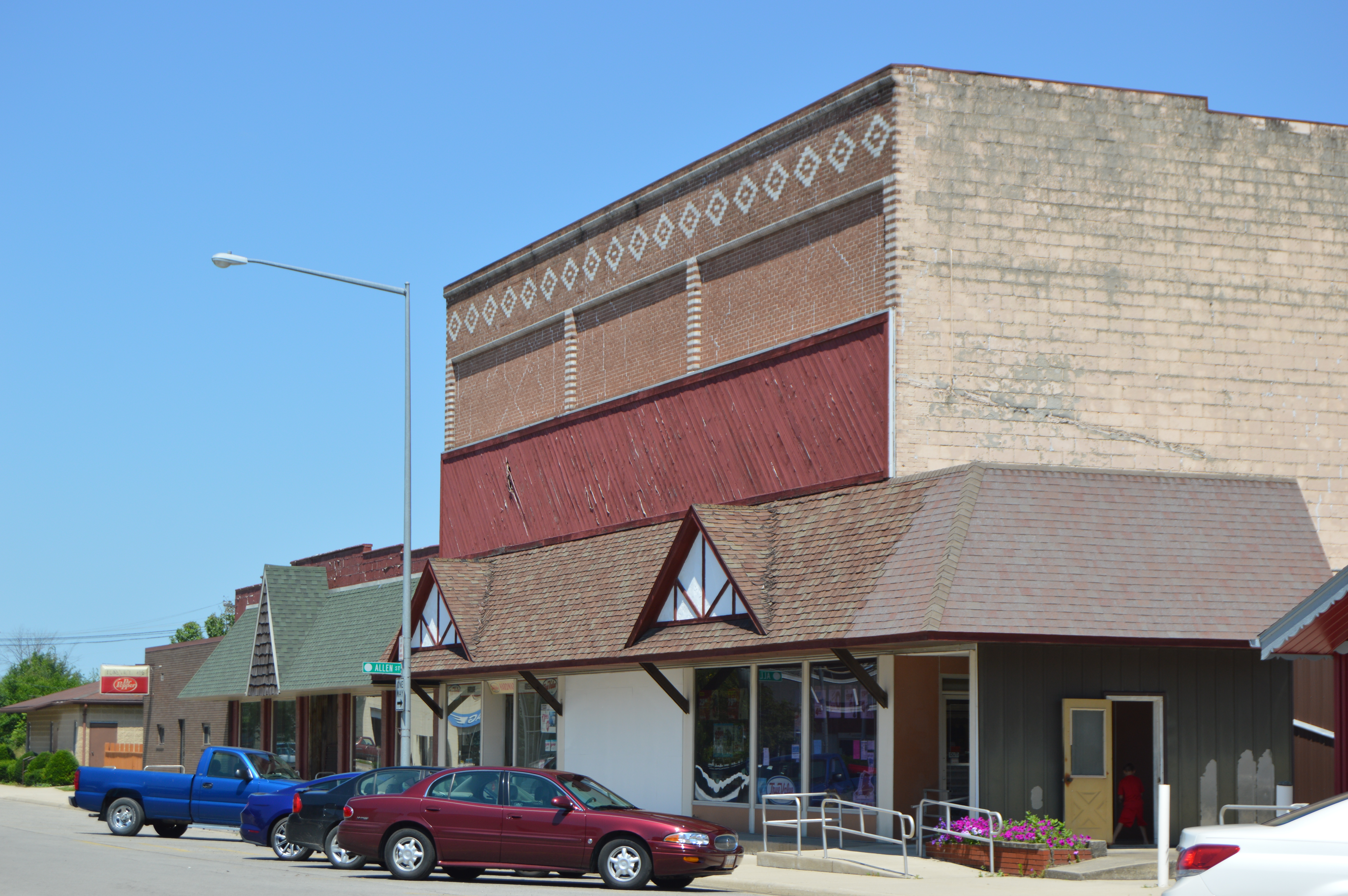 Buildings on the northern side of Randolph Street at the Allen Street intersection in Hamler, Ohio, United States.